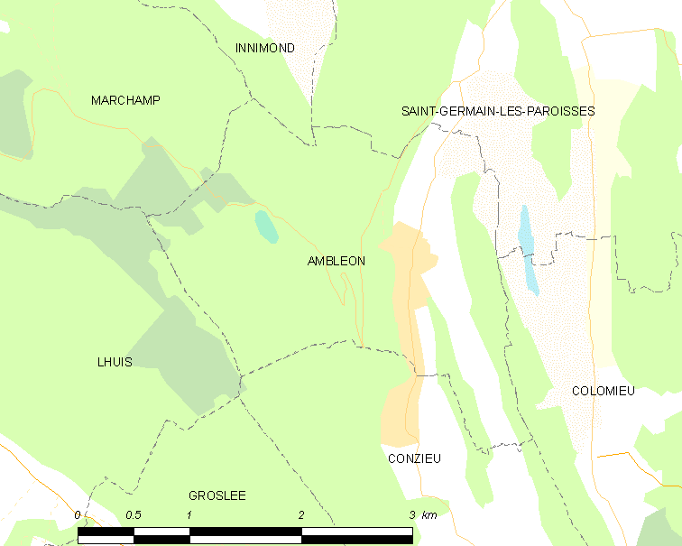 Map of French commune: Ambléon Map commune FR insee code 01006.png